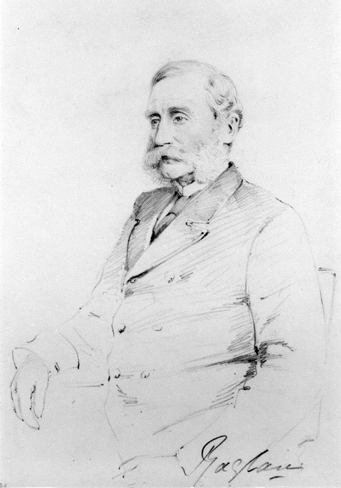 Portrait of Richard Somerset, 2nd Baron Raglan